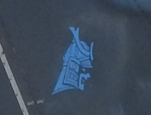 This is the tail marking on Mitsubishi F-2A 03-8504 at the 2016 Hyakuri Air Show